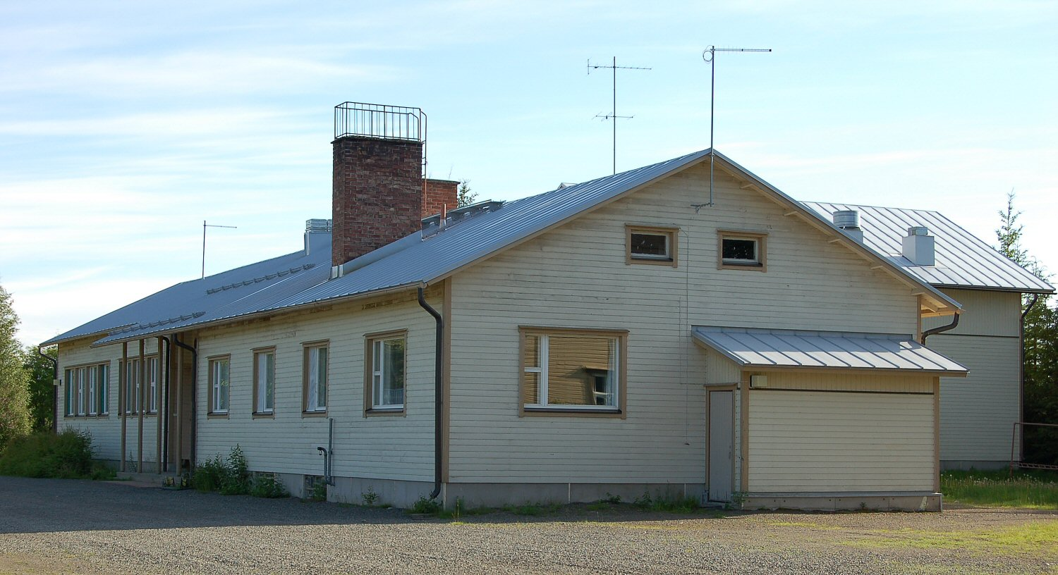 New school building in Vepsä, Ylikiiminki, Finland. The school was closed in 2008.